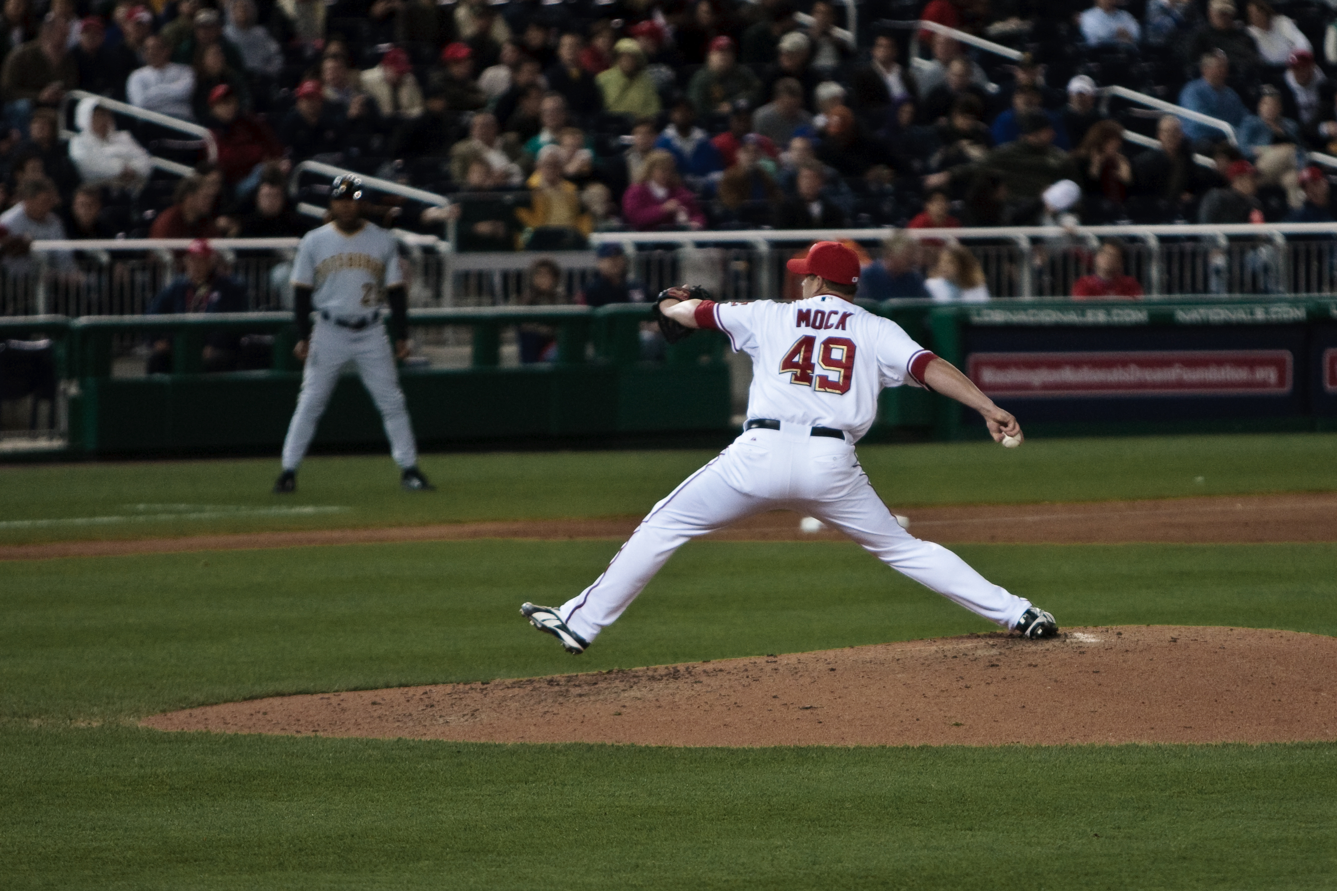 Garrett Mock takes the mound. Walk, wild pitch, HBP, sac bunt and double before removed